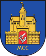 Coat of Arms of Hohenleuben